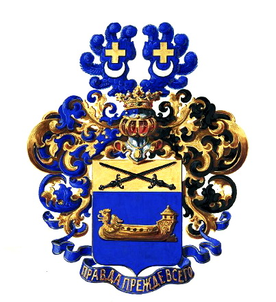 Coat of arms of the family Kudrin